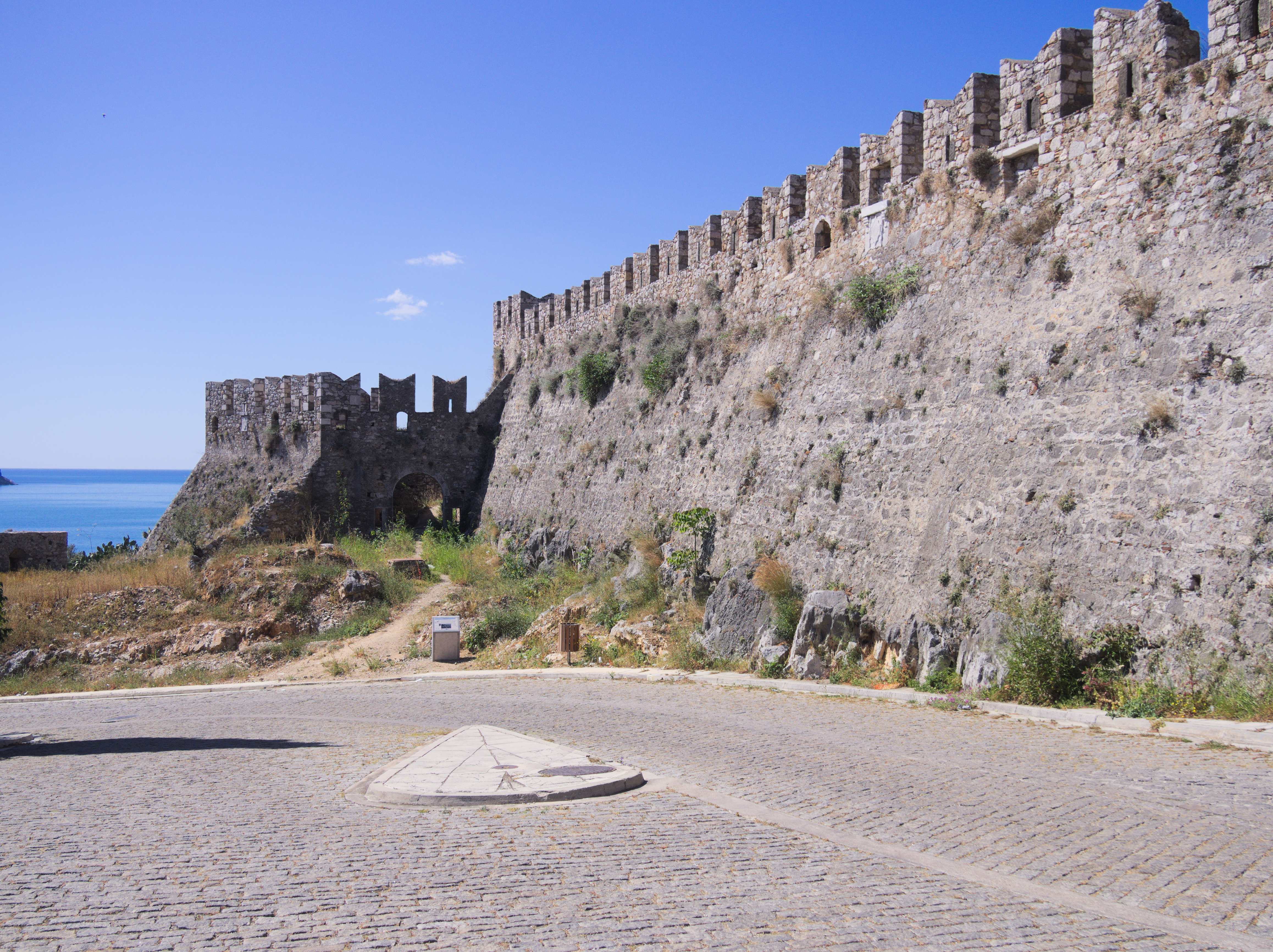 Traversa Gambello, inside Acronafplia.